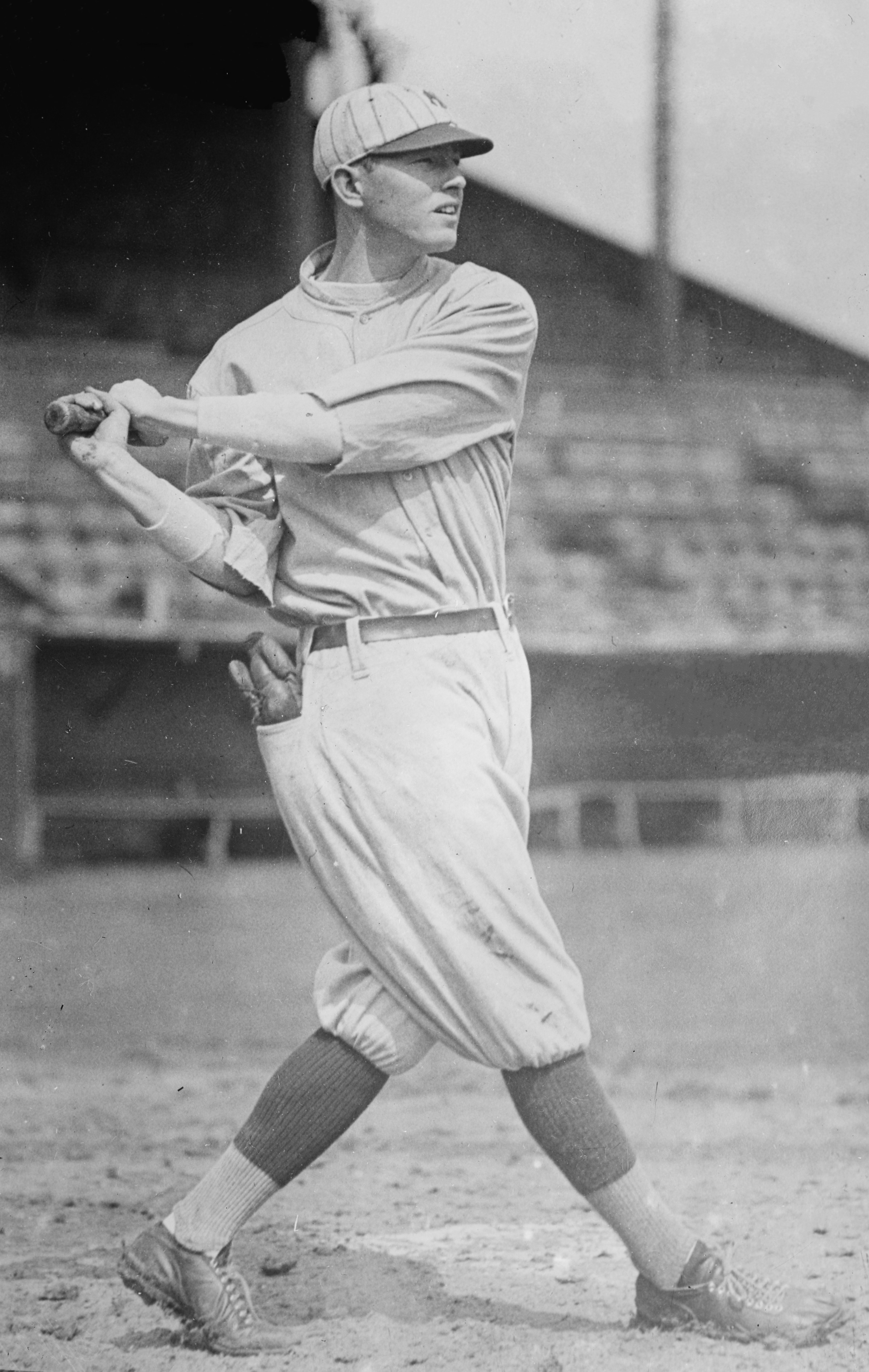 Title: Denver Grigsby, Yankee spring prospect, New York AL (baseball) Abstract/medium: 1 negative : glass ; 5 x 7 in. or smaller.